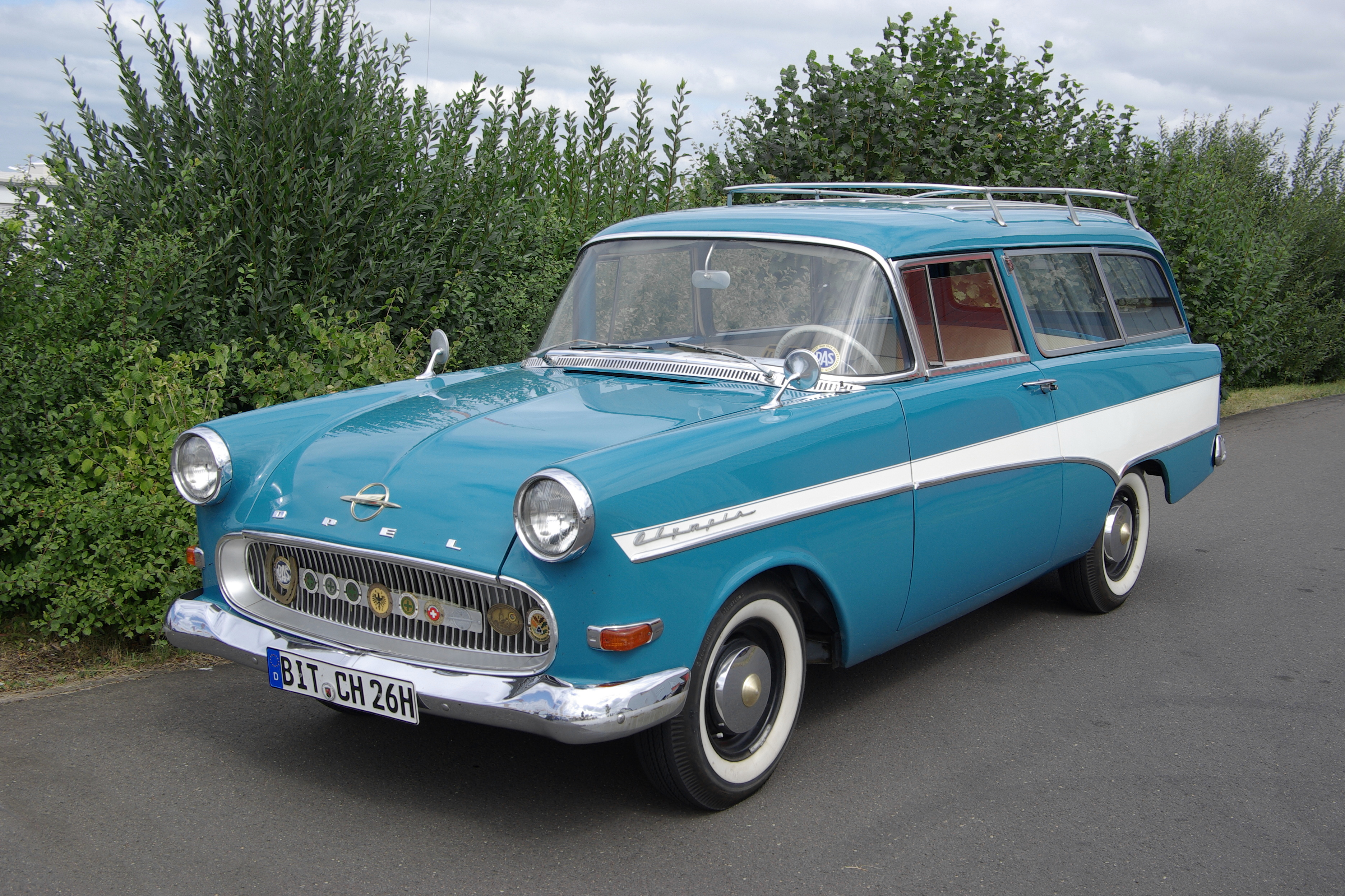 1960 Opel Olympia Rekord P1 1500 Caravan, 1488 cc, 4 cylinder, 45 hp, original condition, photo taken at the Bitburg Classic 2012 classic car meeting